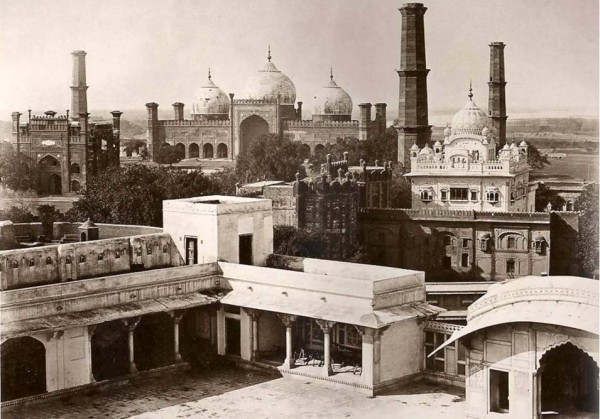 The Lahore Fort, locally referred to as Shahi Qila is citadel of the city of Lahore, Punjab, Pakistan.